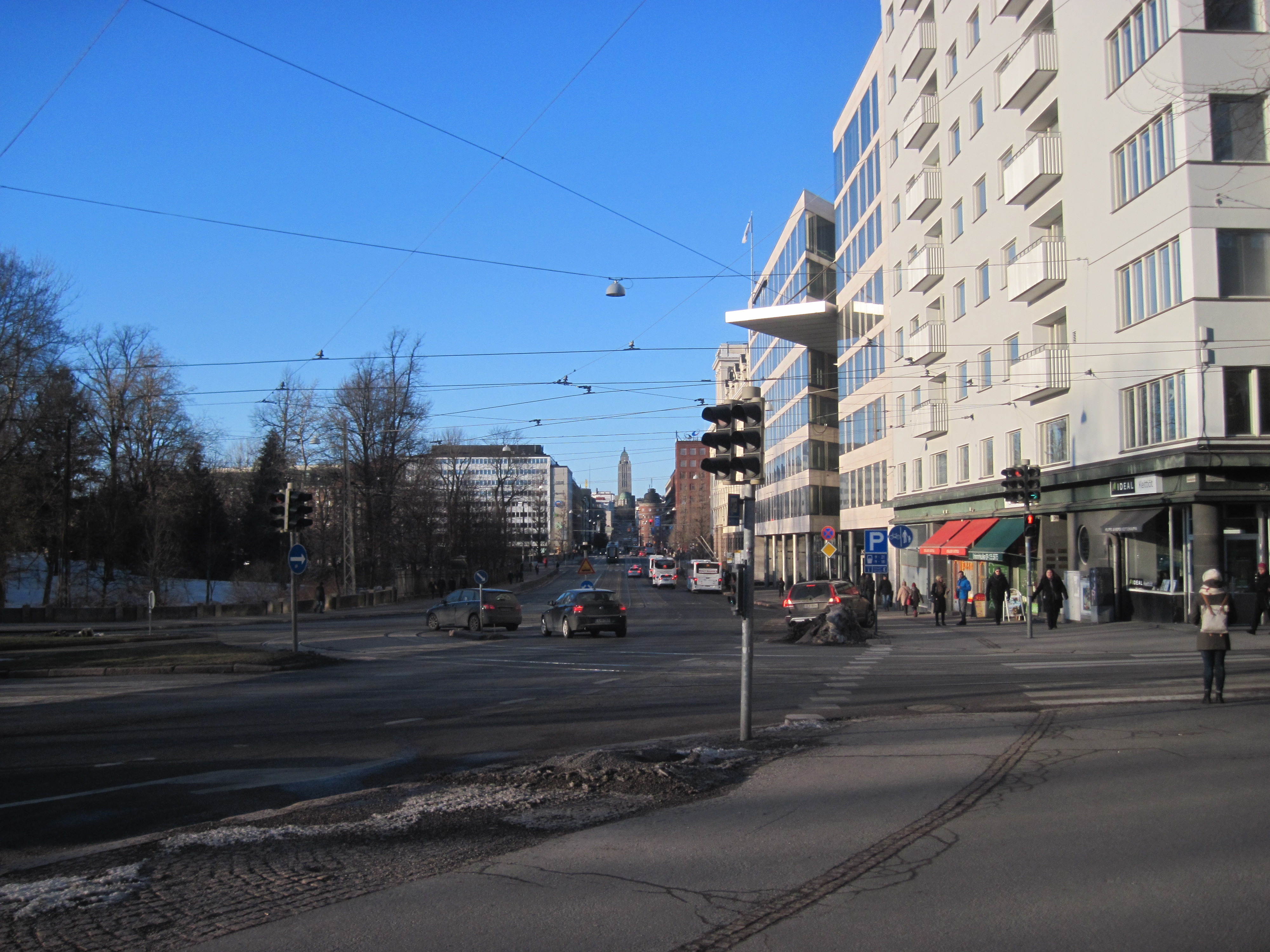 Northenmost part of Unioninkatu in Helsinki